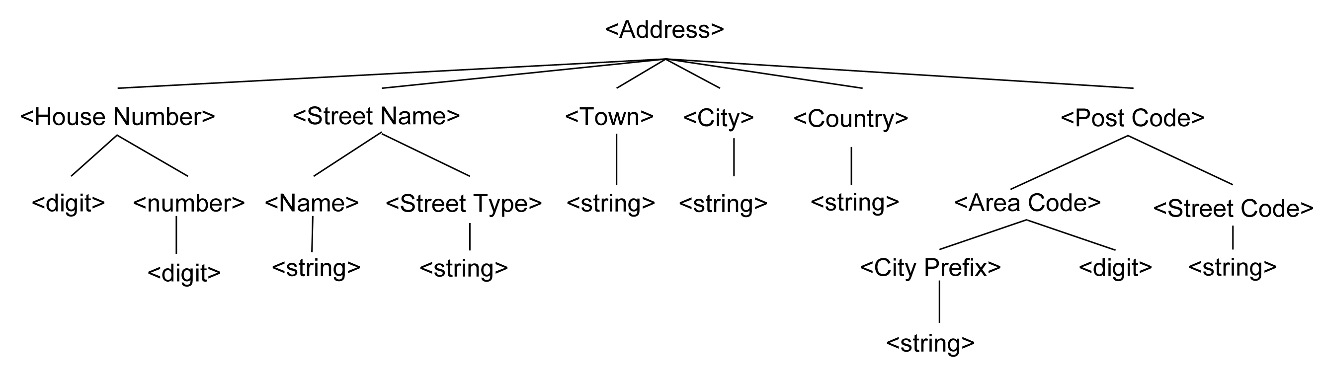 To be accompanied with the example on the wikibooks page on AQA Computing Unit 3